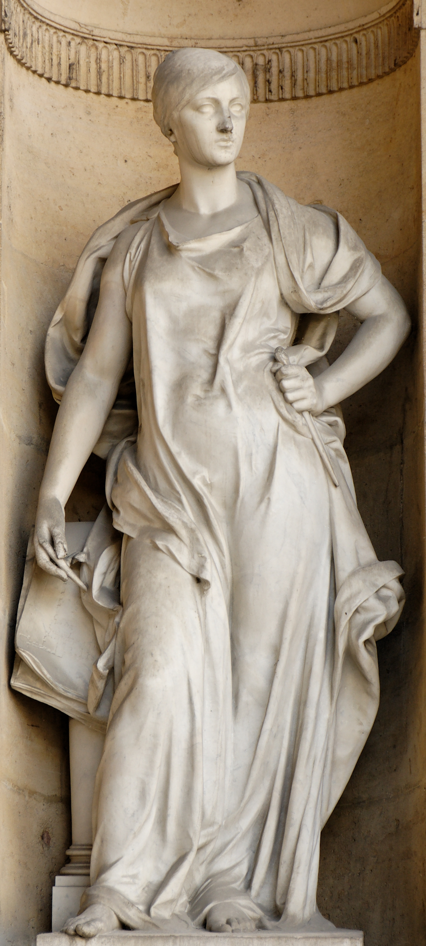 Architecture (1892), by Aristide-Onésime Croisy (1840-1899). West façade of the Cour Carrée in the Louvre palace, Paris.